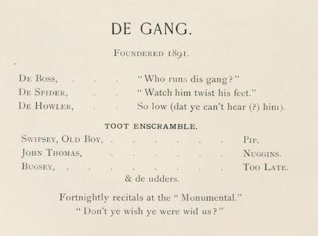 Member Roster of the 1895 Hullabaloo